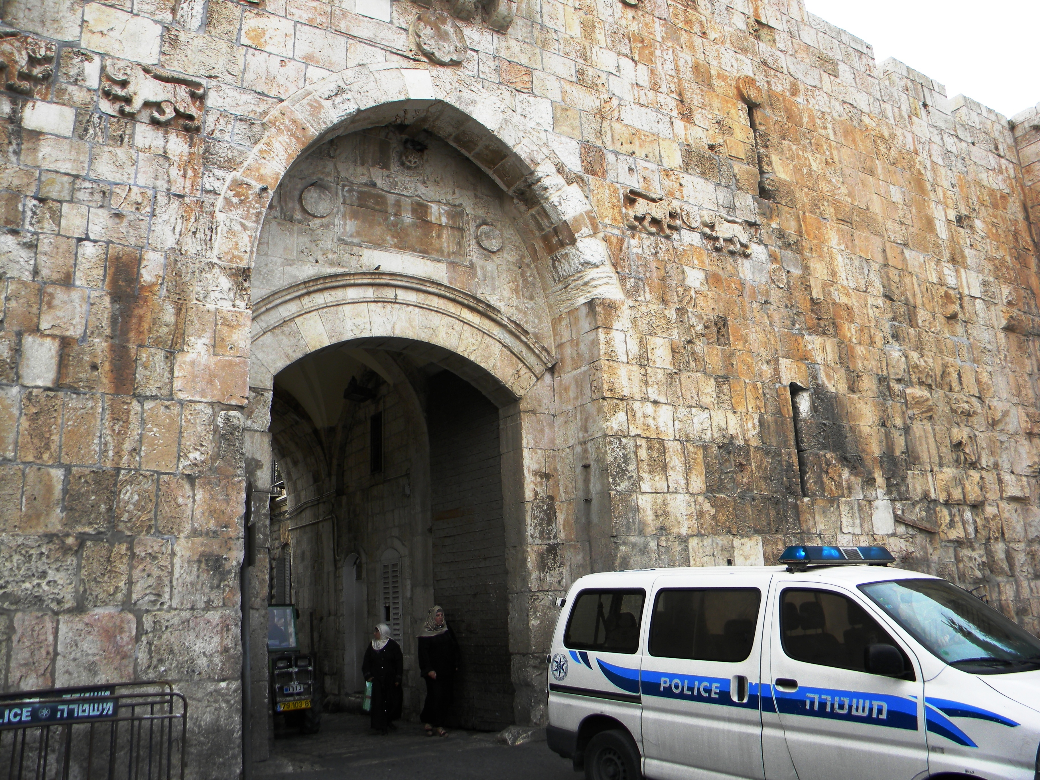 East Jerusalem, Lion Gate (St. Stefan); ID is 11-3000-100 (detail 1)